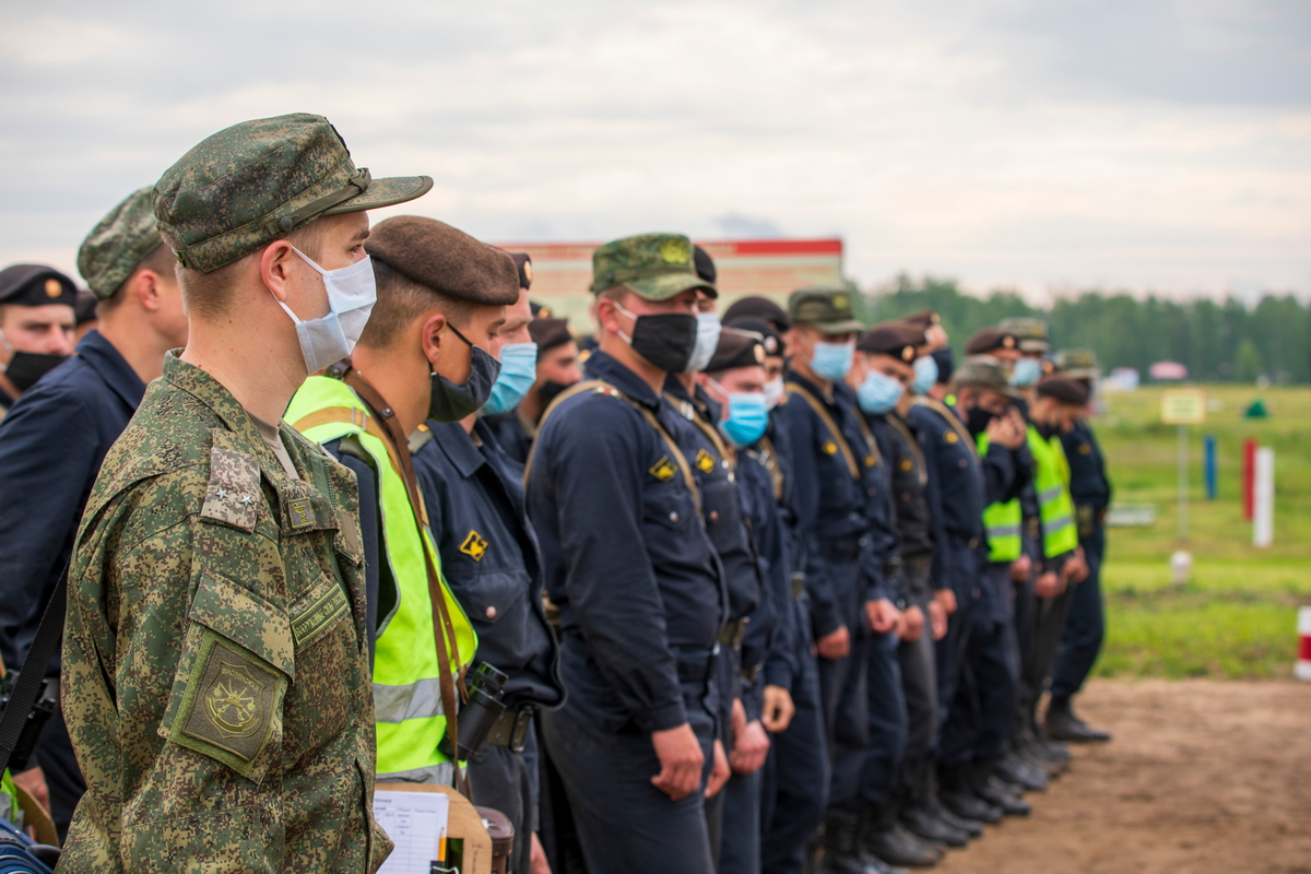 T-72B tanks.